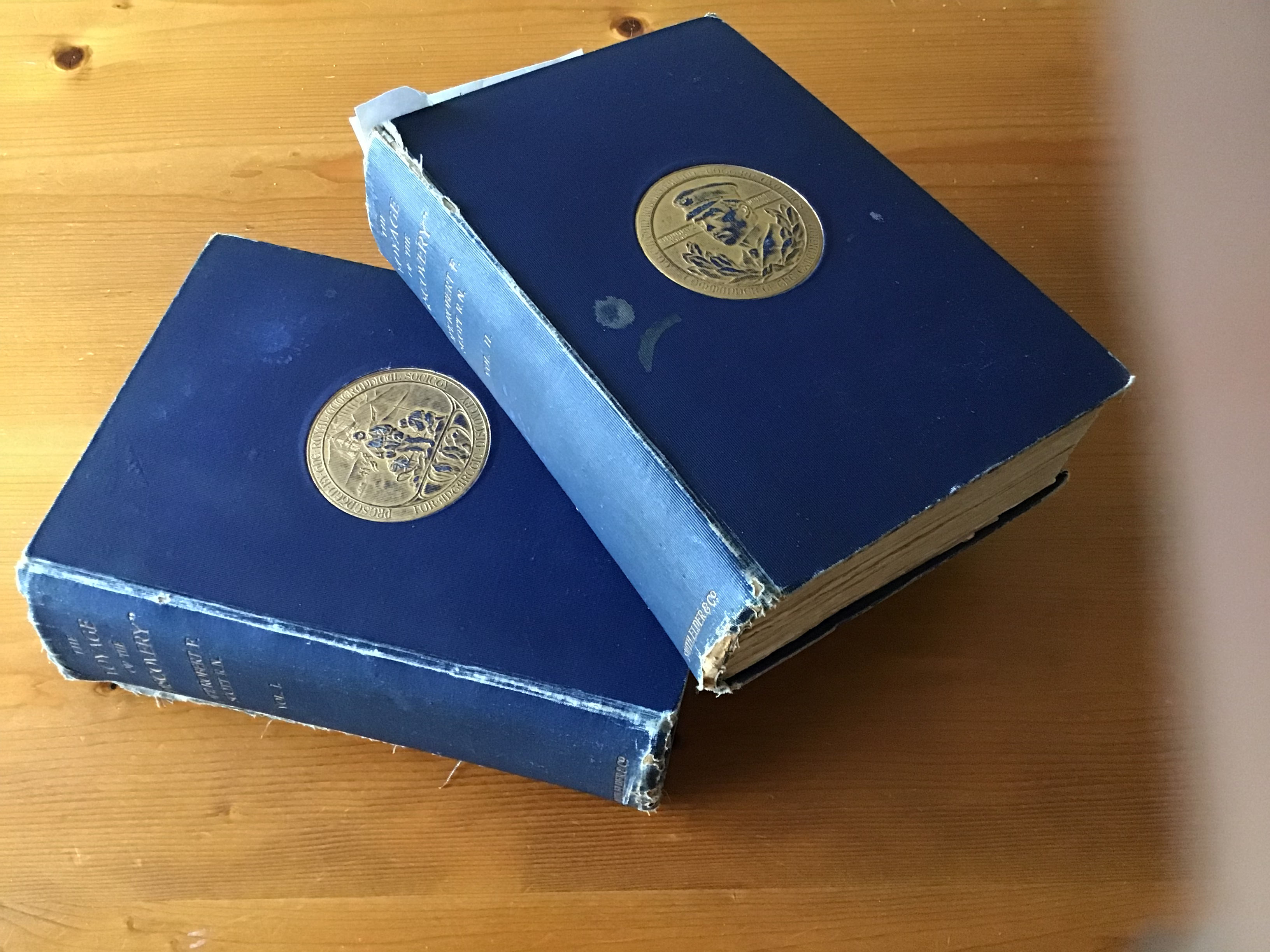 Books The Voyage of the Discovery Captain Scott Vol 1 & 2. Covers show face and reverse of the Polar Medal.